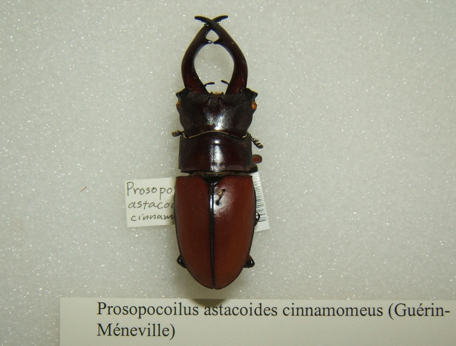 Prosopocoilus astacoides cinnamomeus adult taken by Shawn Hanrahan at the Texas A&M University Insect Collection in College Station, Texas.